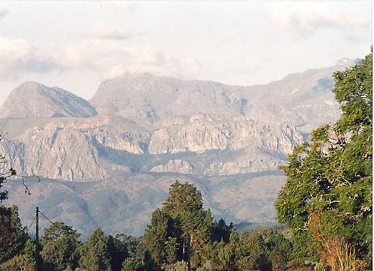 The Eastern Highlands of Zimbabwe, seen from the village of Chimanimani, Manicaland. The mountains form the border with Mozambique. Taken April 1995 on Fujifilm.